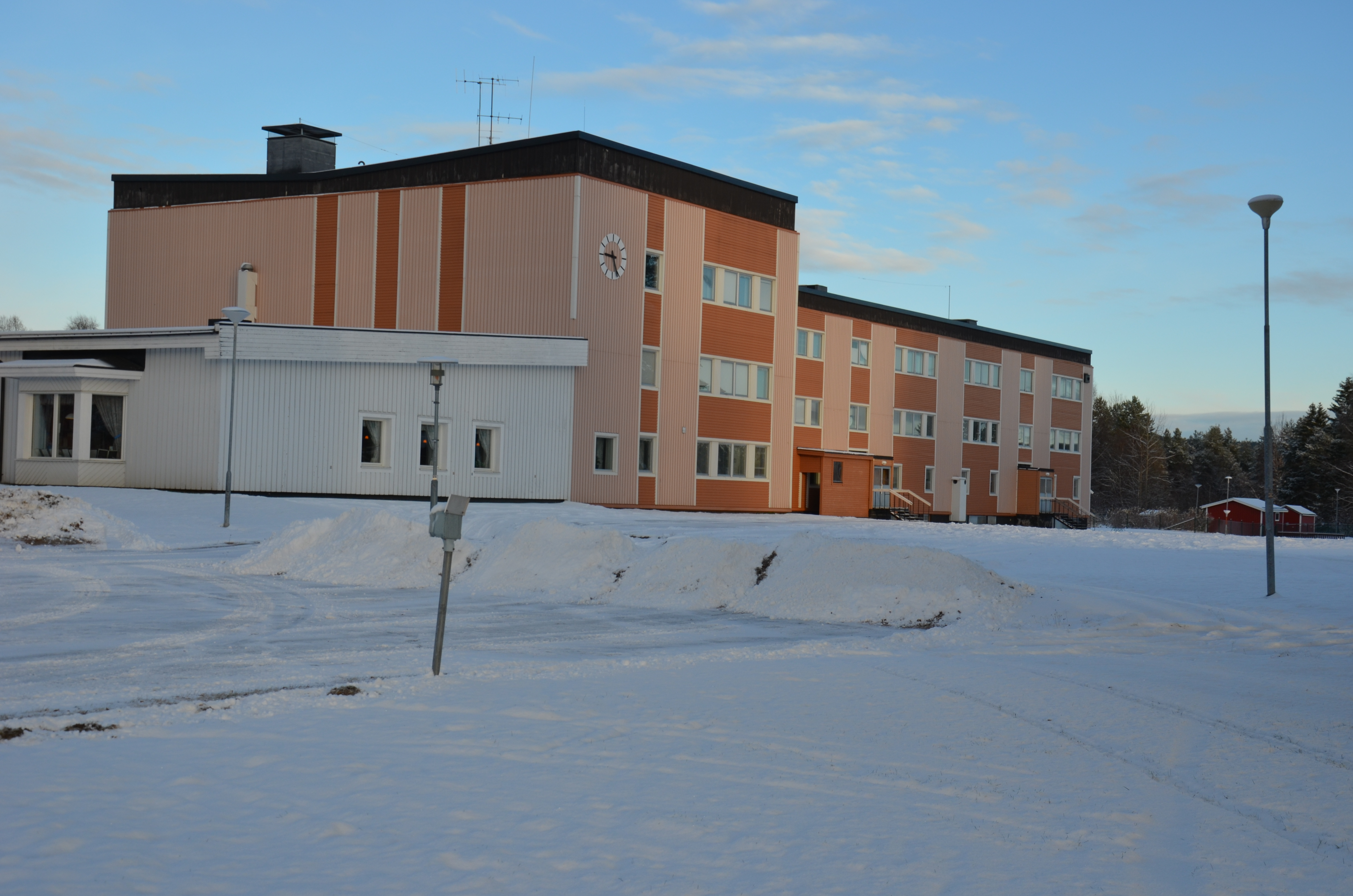 Vuollerims skola